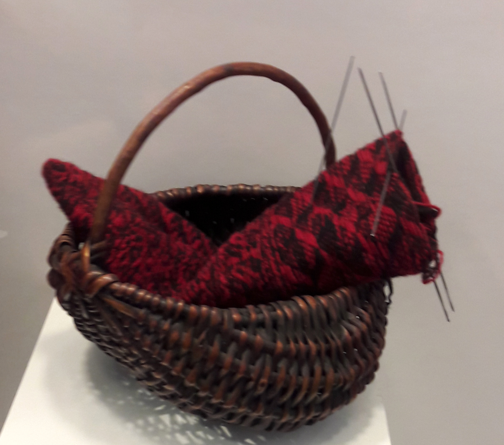 Knitwear, part of the ethnological collection of the Local Museum in Knjaževac.